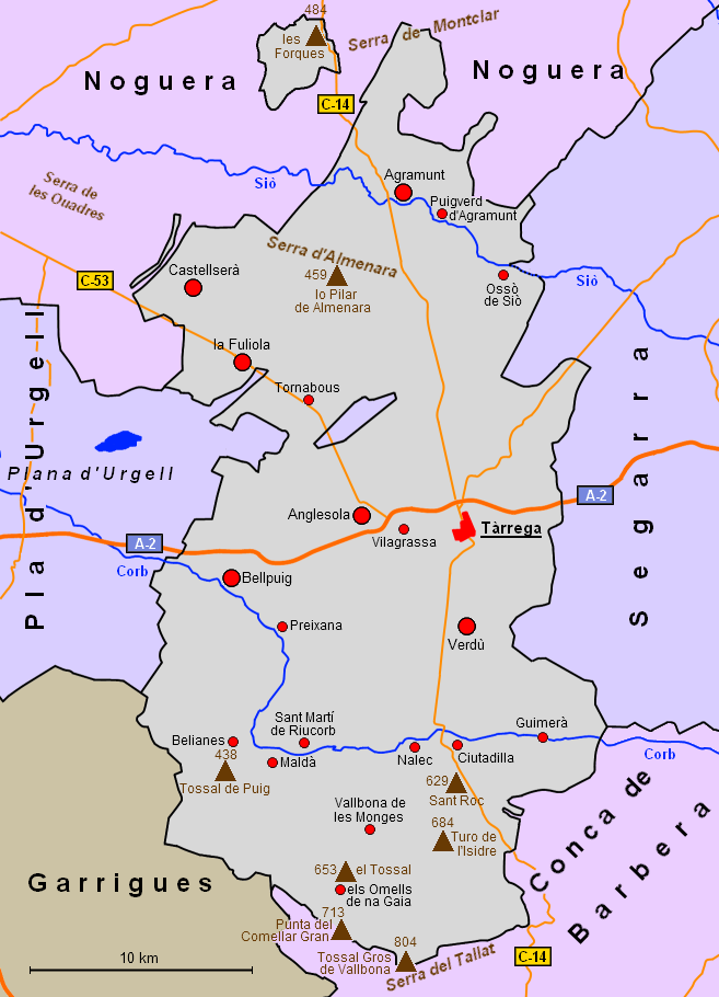 Map of the comarca Urgell, Catalonia, Spain